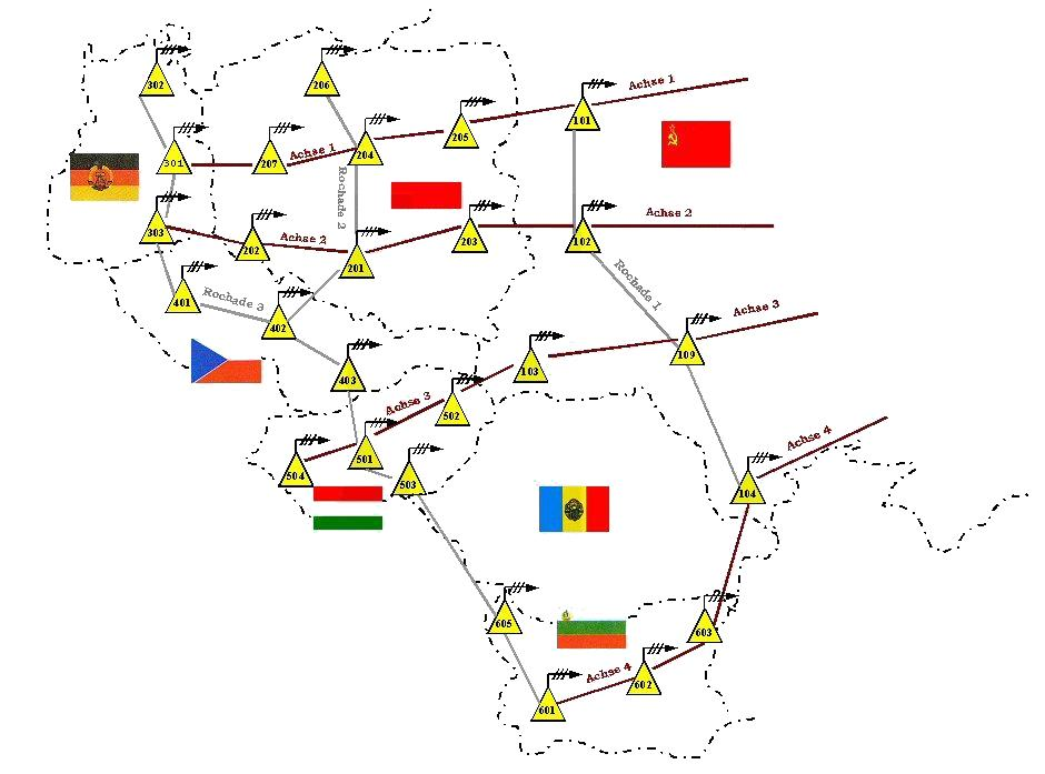 The WP military troposcatter telecommunication system "BARS".